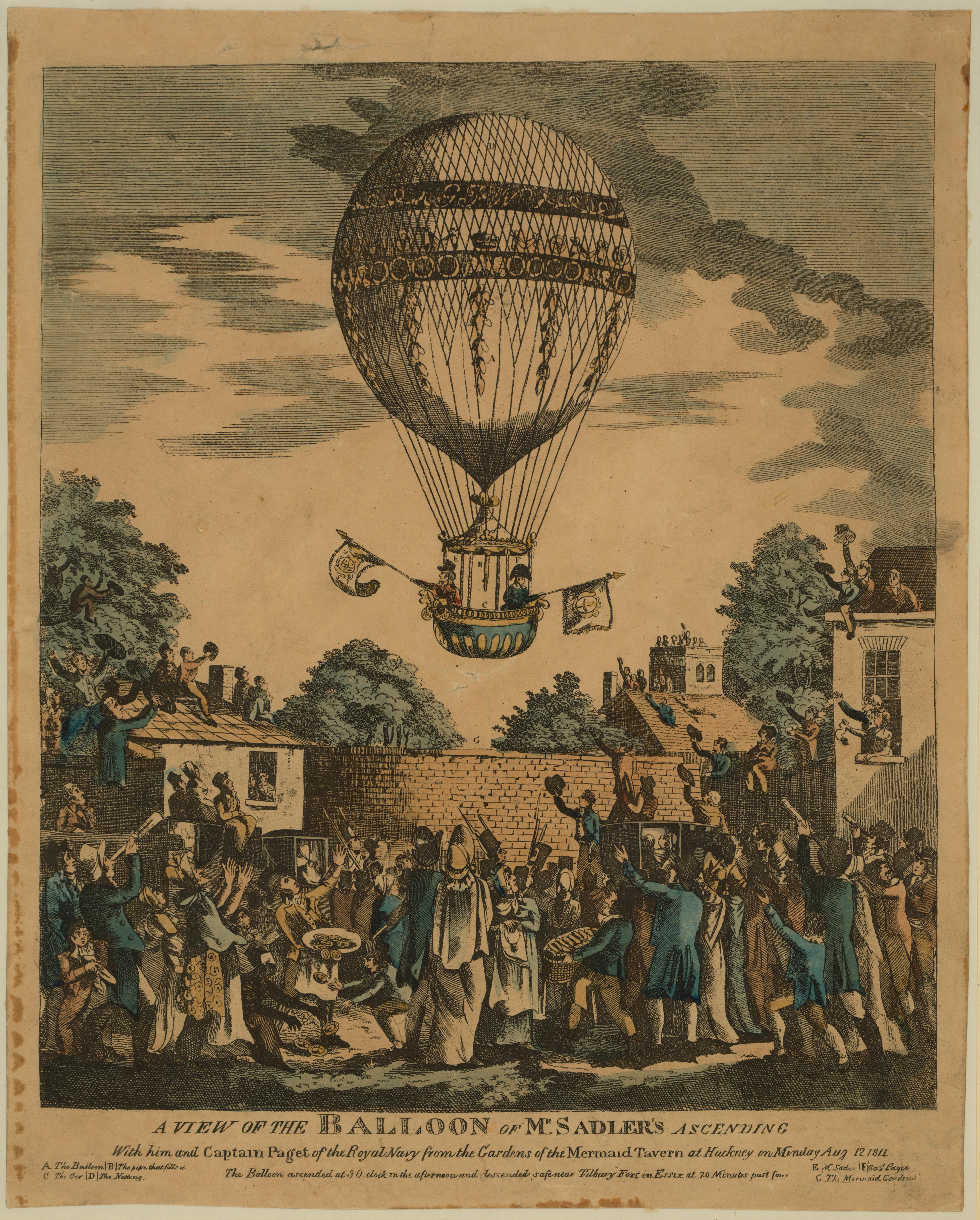 Print shows James Sadler and Captain Paget of the British Royal Navy ascending in a balloon decorated in honor of the Prince Regent's birthday, from the Mermaid Tavern gardens, Hackney, London, August 12, 1811. Text on print: "A view of the balloon of Mr. Sadler's ascending with him and Captain Paget of the Royal Navy from the gardens of the Mermaid Tavern at Hackney on Monday, August 12, 1811. The Balloon ascended at 3 o'clock in the afternoon and descended safe near Tilbury Fort in Essex at 20 minutes past."